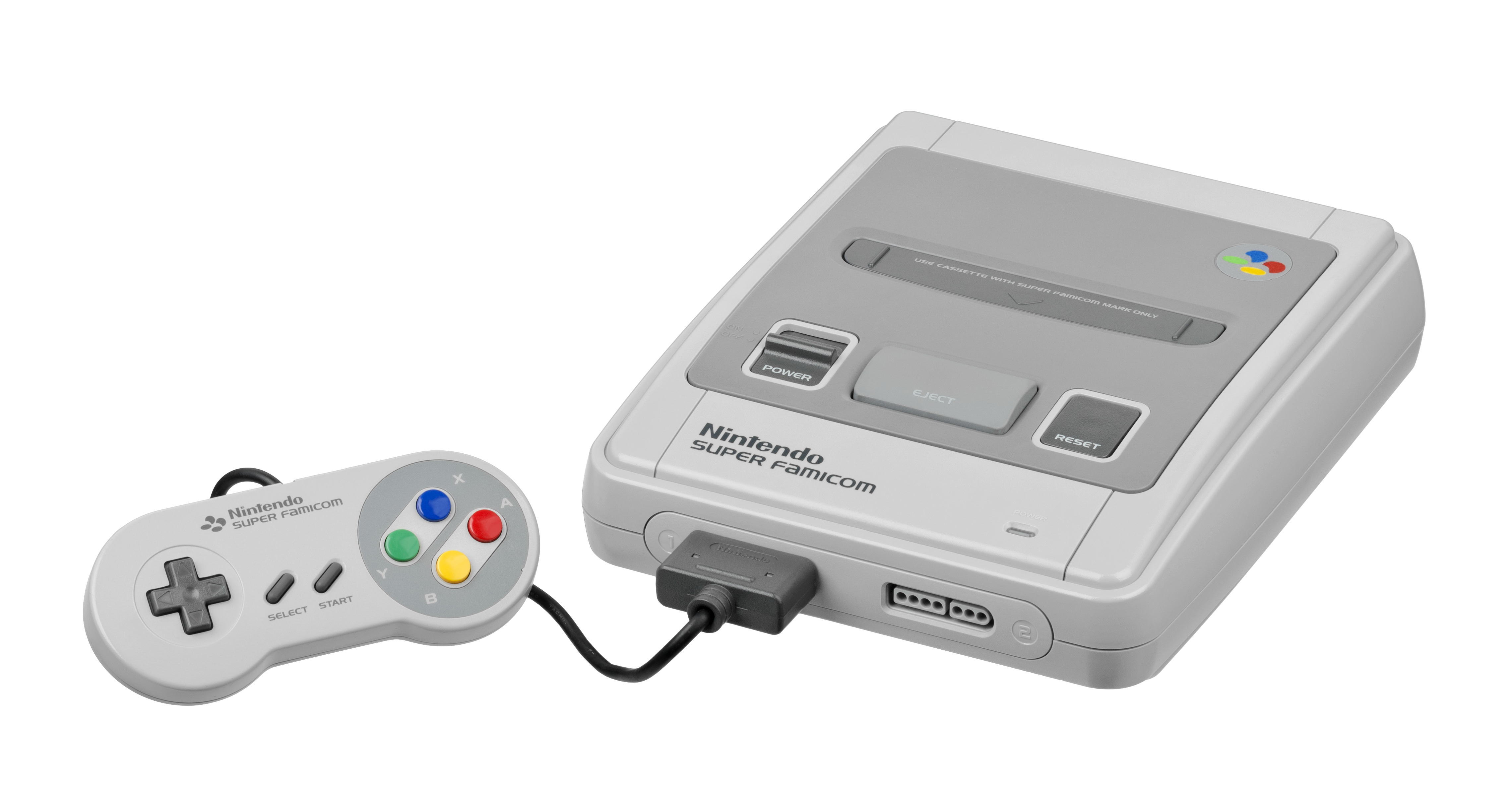 The Super Famicom, a video game console released by Nintendo in 1990. The 16-bit follow up to the successful Famicom, and it became the highest selling console of its generation, selling close to 50 million systems worldwide. Worldwide, the system was known as the Super Famicom, and in the North American markets it received a boxier, purple redesign.